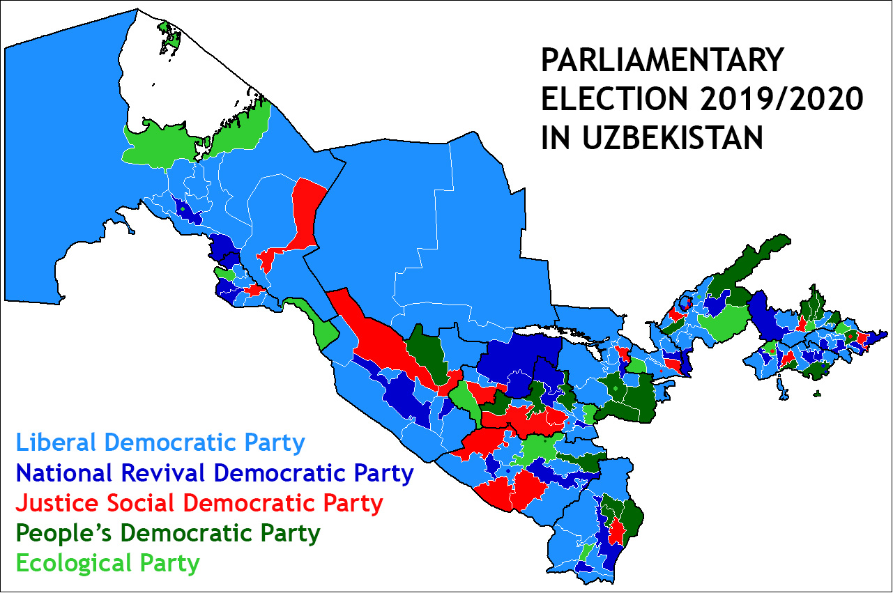 Results of the 2019-2020 parliamentary election in Uzbekistan by district